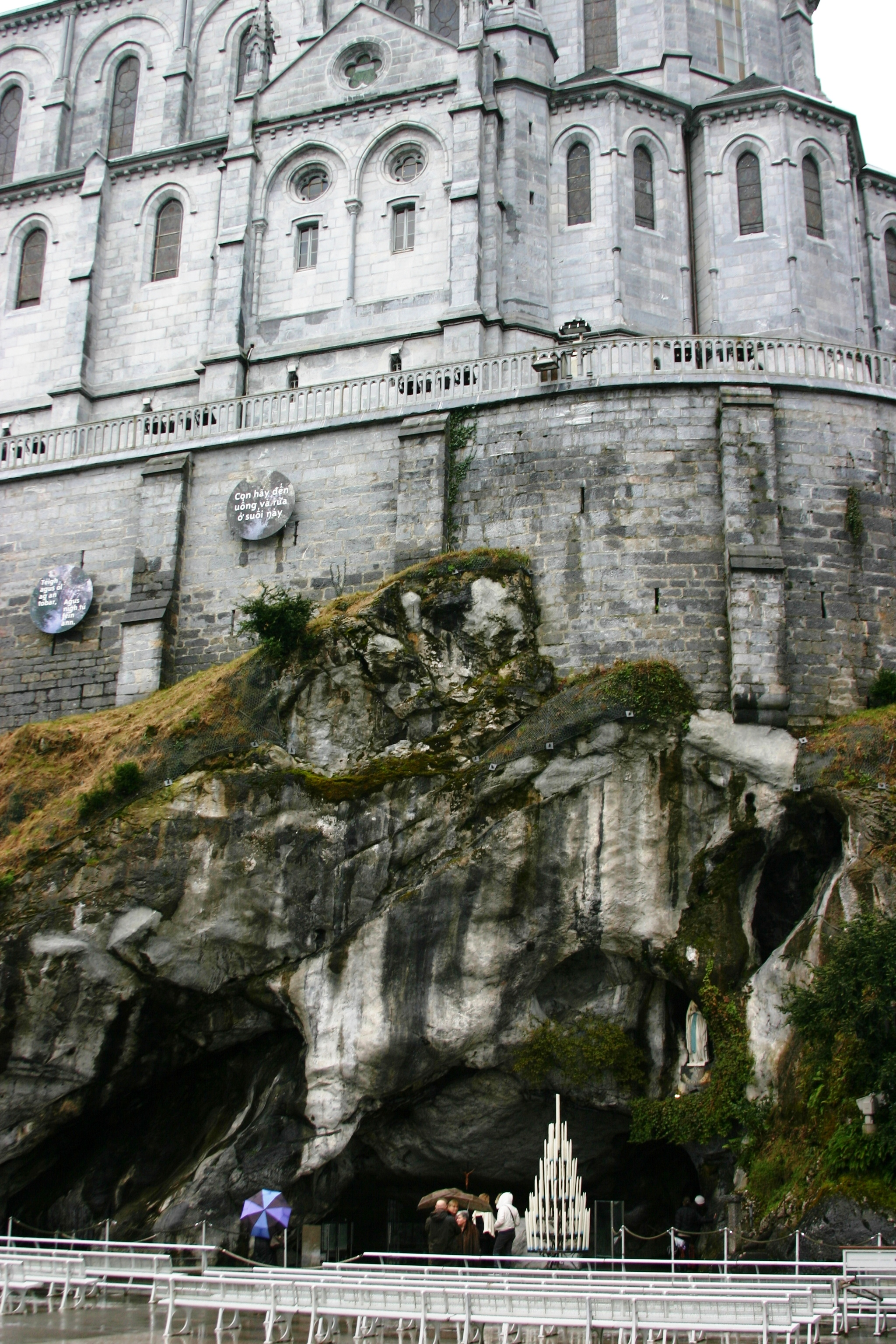 Basilica of the Immaculate Conception - Lourdes